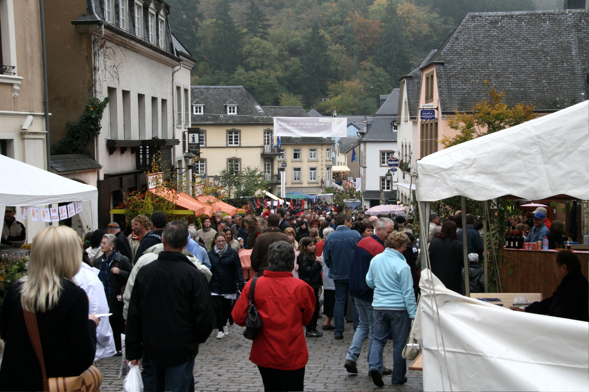 Crowd at walnut-fair in Vianden, Luxembourg